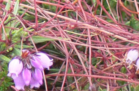 Dodder flowers (Cuscuta epithymum) on heather moorland and gorse (Ulex gallus), on the "Cap de la chèvre ("Cape of the Goat" ; Brittany, France), an area of peat soil highly susceptible to wind, sun and storms)